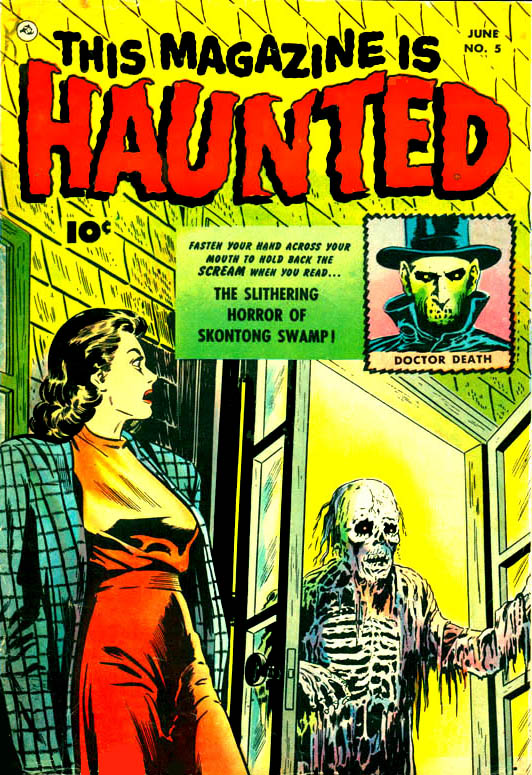 Cover of This Magazine is Haunted # 5, published by published by Fawcett Comics (June 1952). Artwork by Sheldon Moldoff.